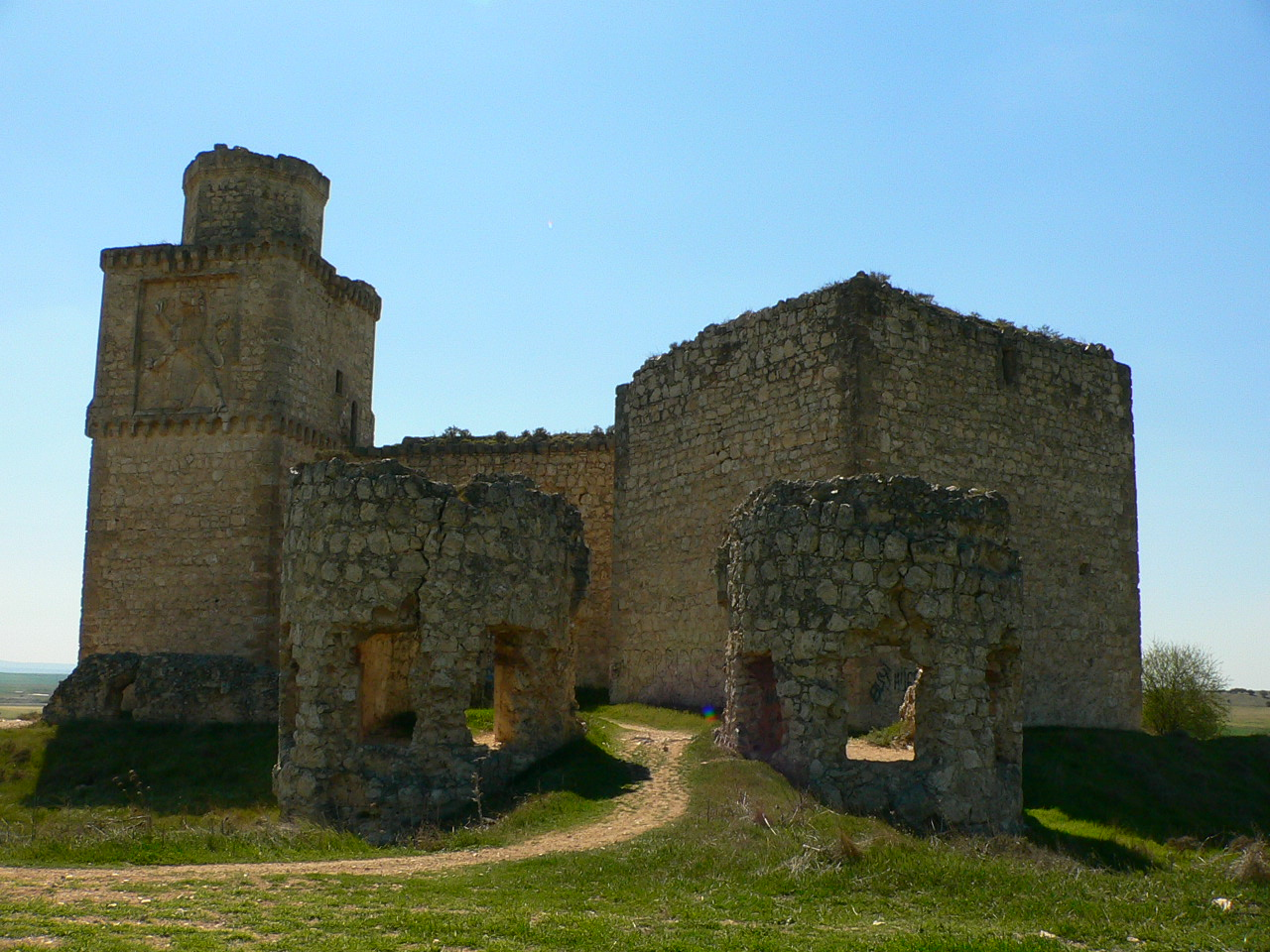 Castle of Barcience, near Maqueda, in the province of Toledo, Spain. It was built in the 15th c. by the counts of Cifuentes, whose emblem was the lion. It was used for artillery in the 16th century.